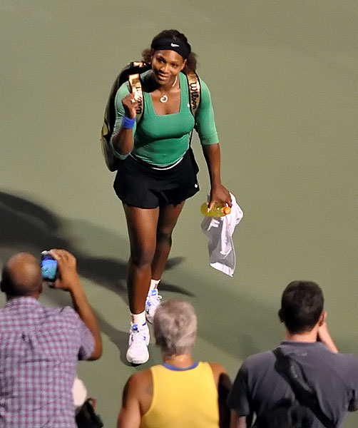 SerenaWilliams_0055